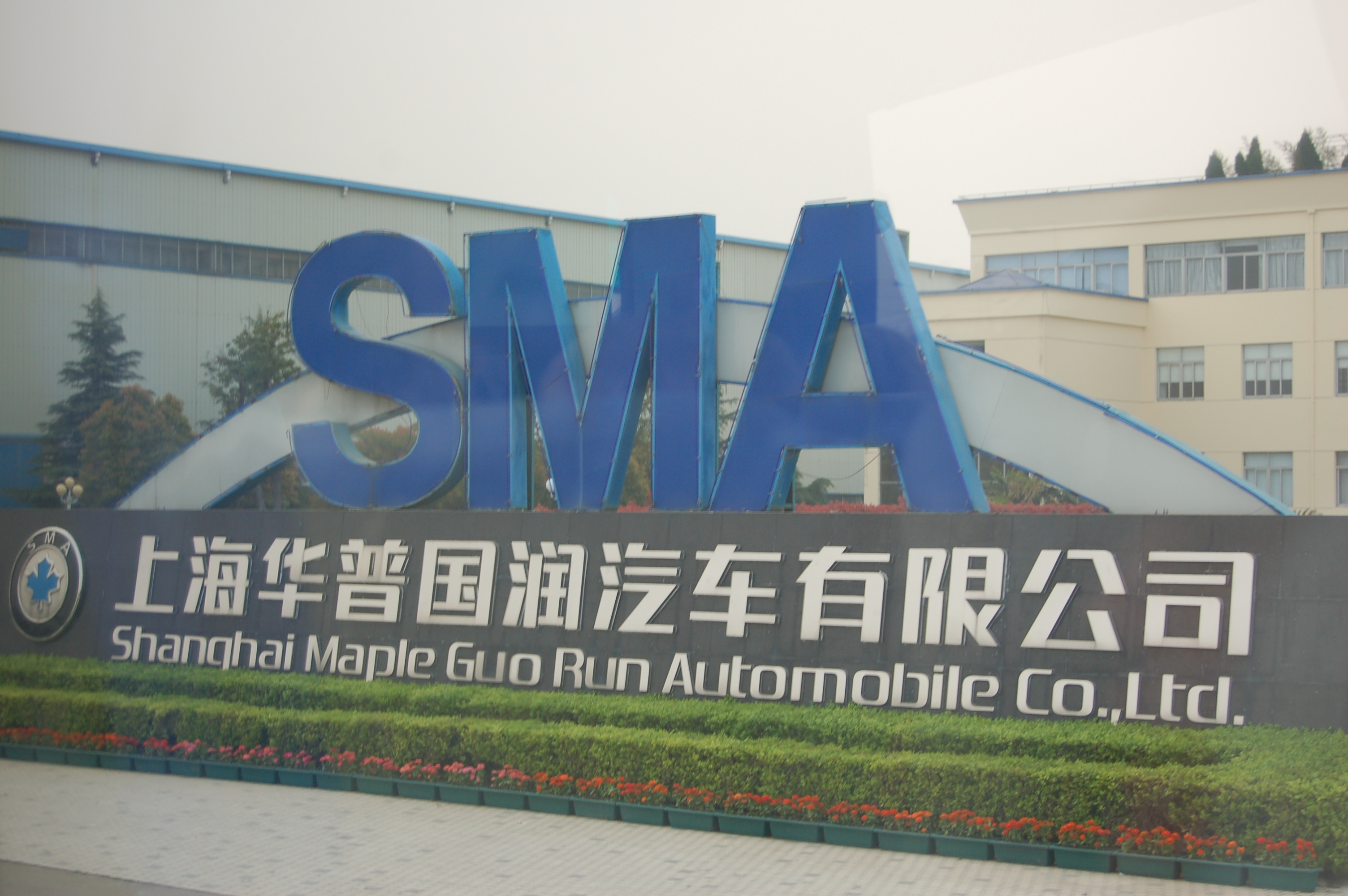 The Shanghai corporate office for SMA.